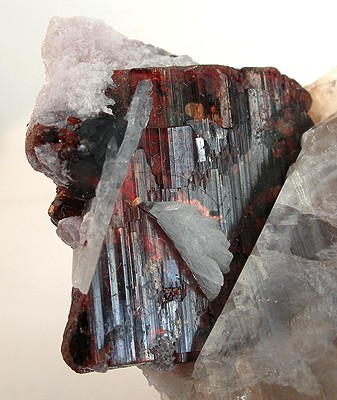 Tantalite-(Mn), Quartz Locality: Darra-i-Pech (Pech; Peech; Darra-e-Pech) Pegmatite Field, Nangarhar (Ningarhar) Province, Afghanistan (Locality at ) Size: 7.1 x 5.7 x 4.7 cm. This interesting piece is something that is seldom seen from here, a beautiful red manganotantalite crystal. This doubly-terminated tantalite is perched diagonally on a doubly-terminated quartz crystal, the whole cluster a floater with no attachments or damage. The lustre of the tantalite, which is 3 cm diagonal or 2 cm on edge and shaped like a rhombus, is unusually bright and metallic. The rare red color shows on this crystal with only minimal lighting needed, while most are more black than red. I should clarify to say that most tantalite found in these pegmatites is dark and black ferrotantalite. The manganoan species are more uncommon in good crystals, and in those already uncommon pieces, a good red hue is rare.